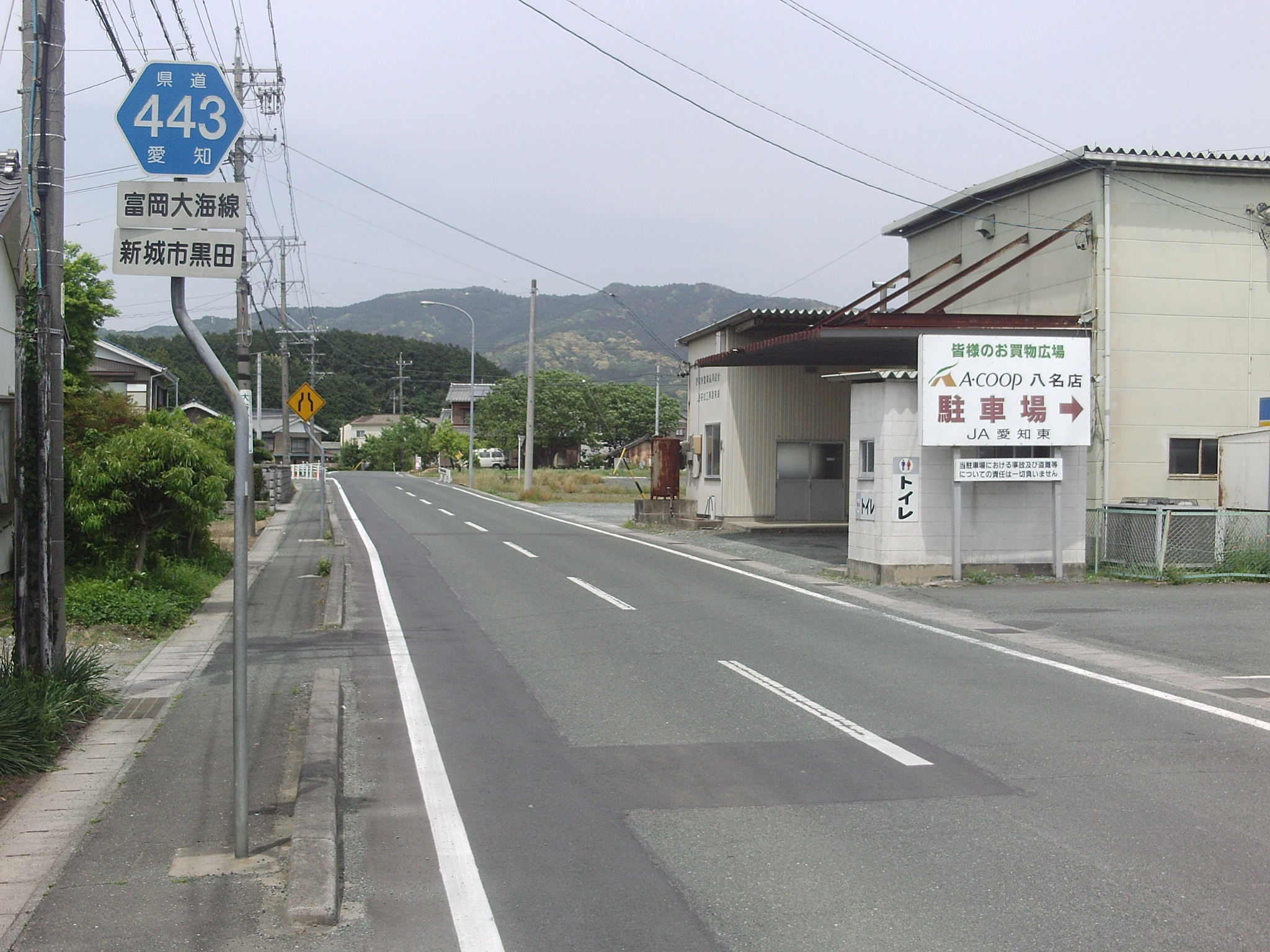 Aichi prefectural road No.443 in Kuroda, Shinshiro, Aichi.